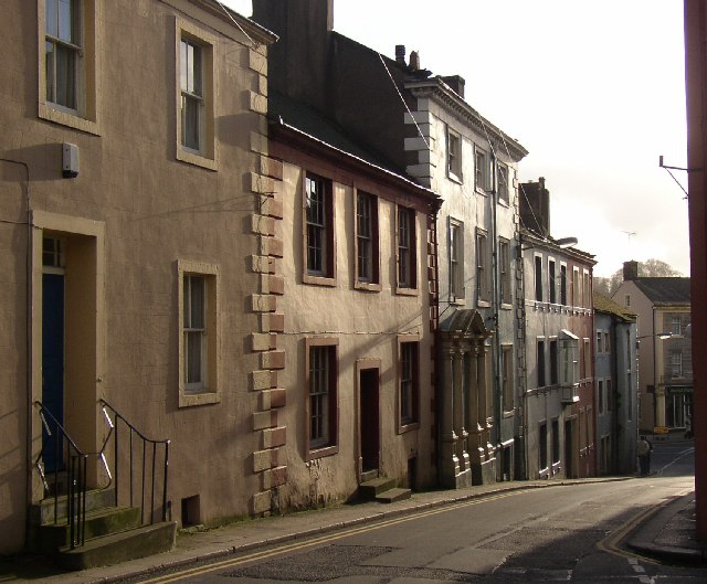 Castlegate, Cockermouth. This narrow road was the A594 before the bypass was built, and leads for Market Place up to the entrance to the Castle.